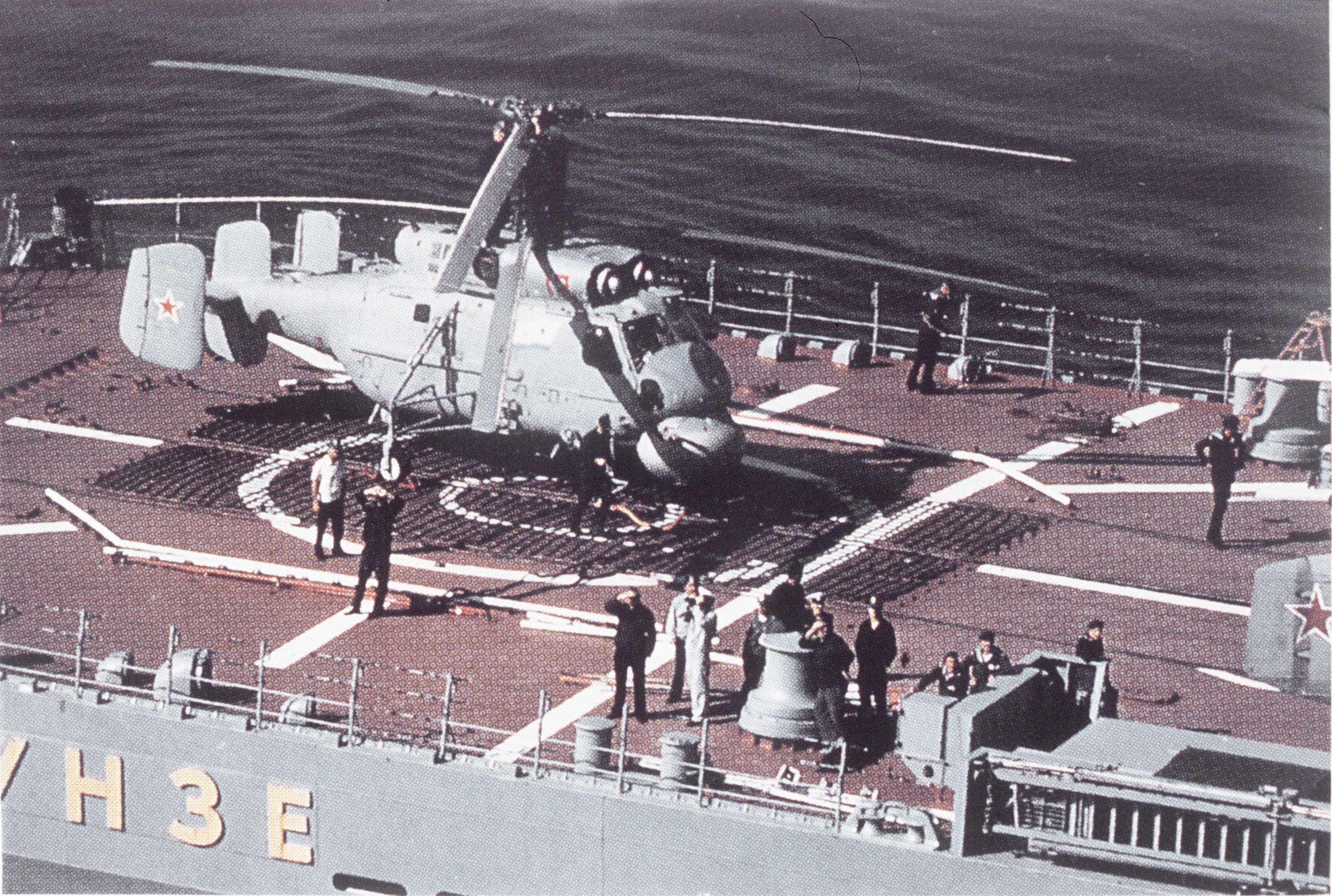 A Soviet Ka-25 Hormone helicopter on the deck of a Kirov class nuclear-powered guided missile cruiser FRUNZE. From Soviet Military Power 1987.